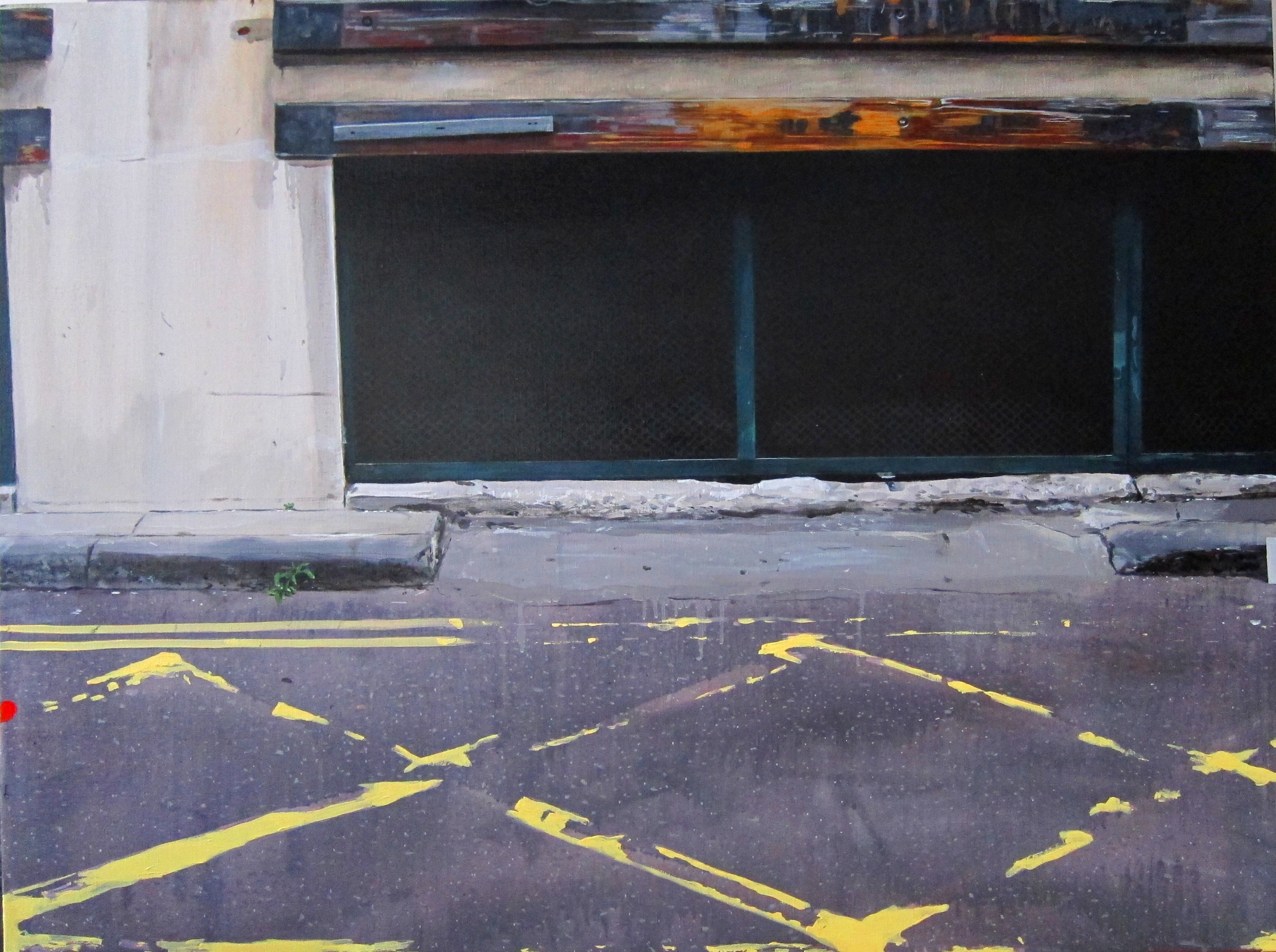 Acrylic on Canvas, 91x122cm, 2012, Private Collection, UK